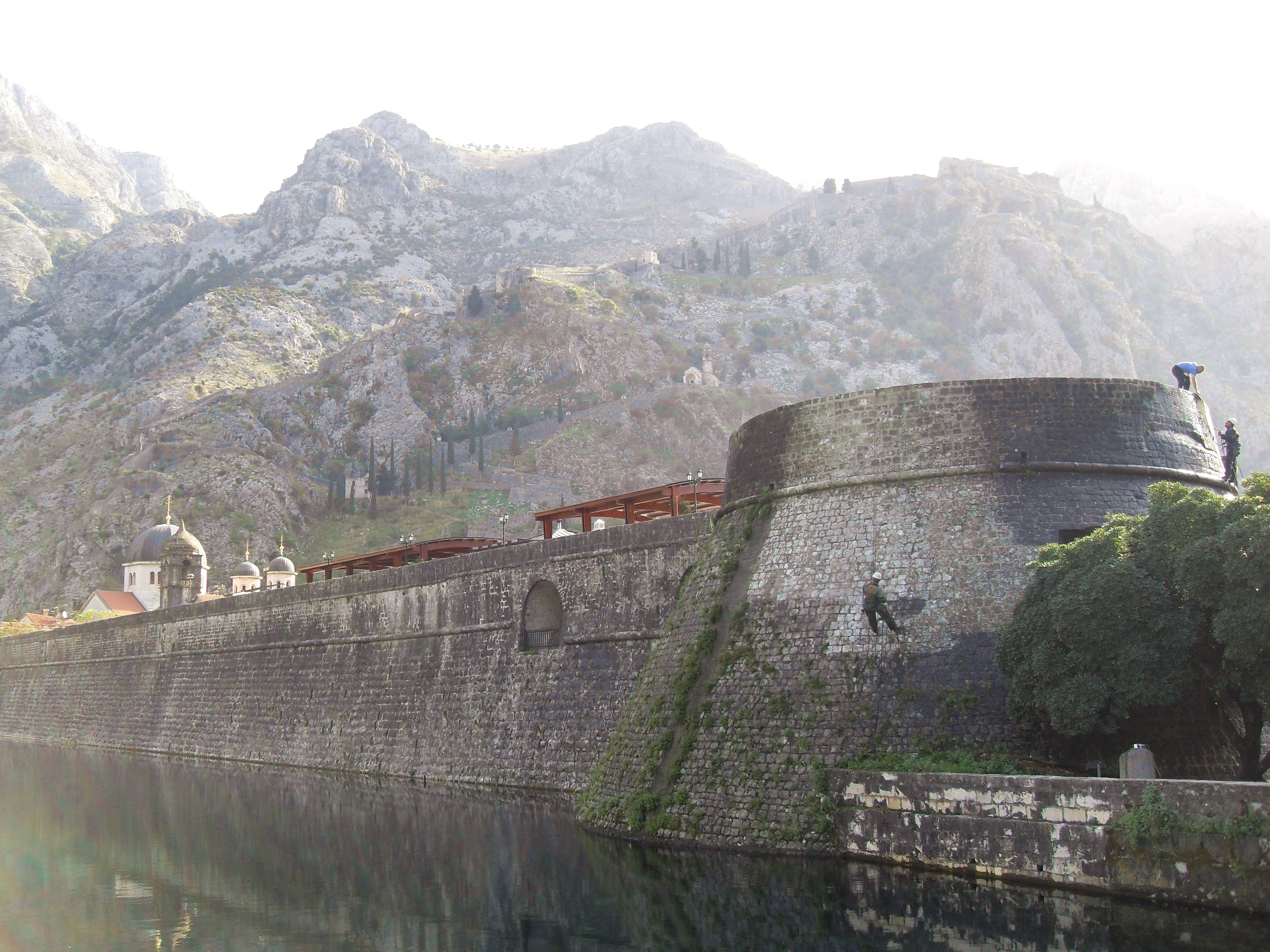 Kampana Tower, Kotor with Castel St. John on the hill